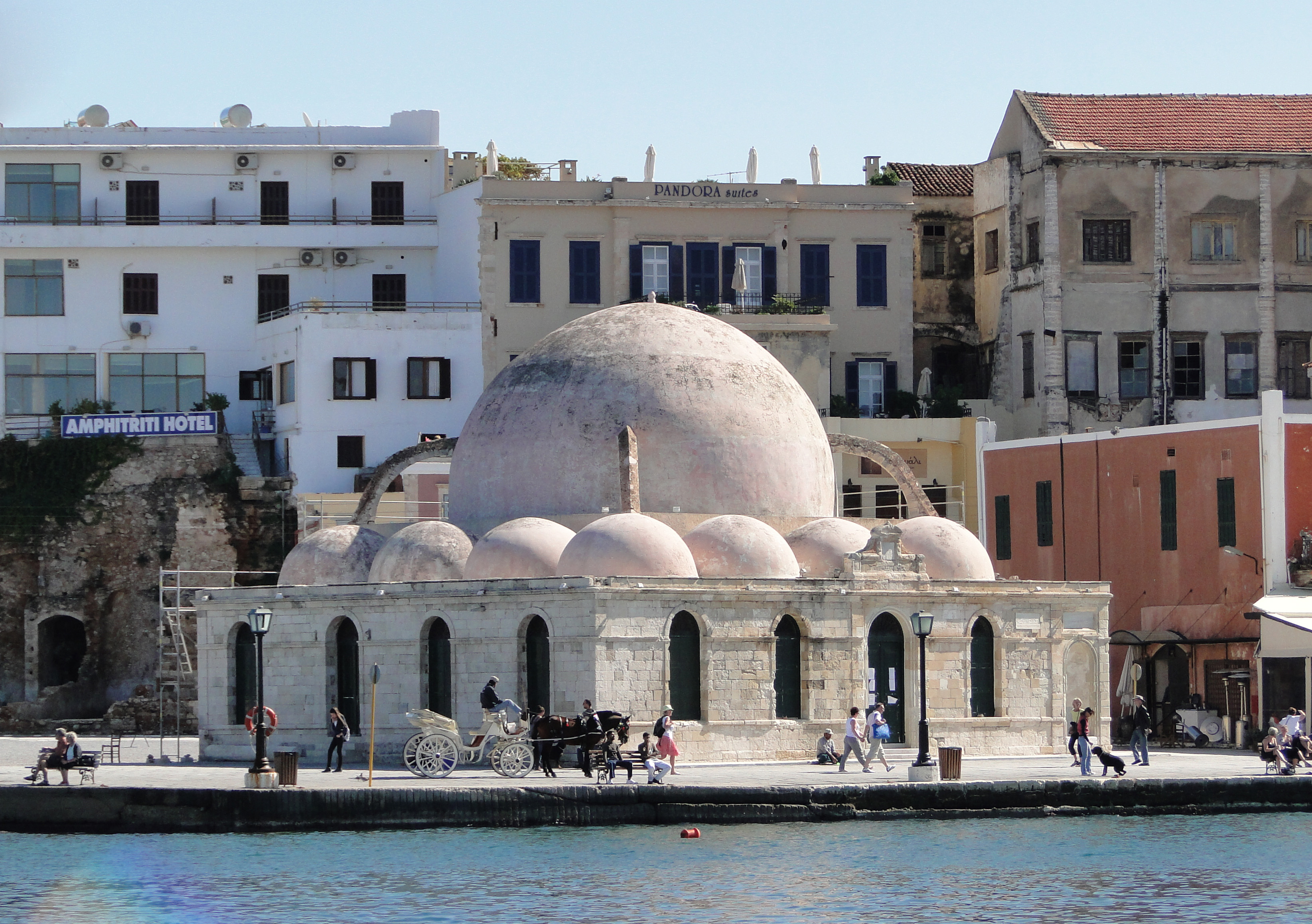 Janissaries Mosque or Küçük Hasan Pasha Mosque, Chania, Crete, Greece